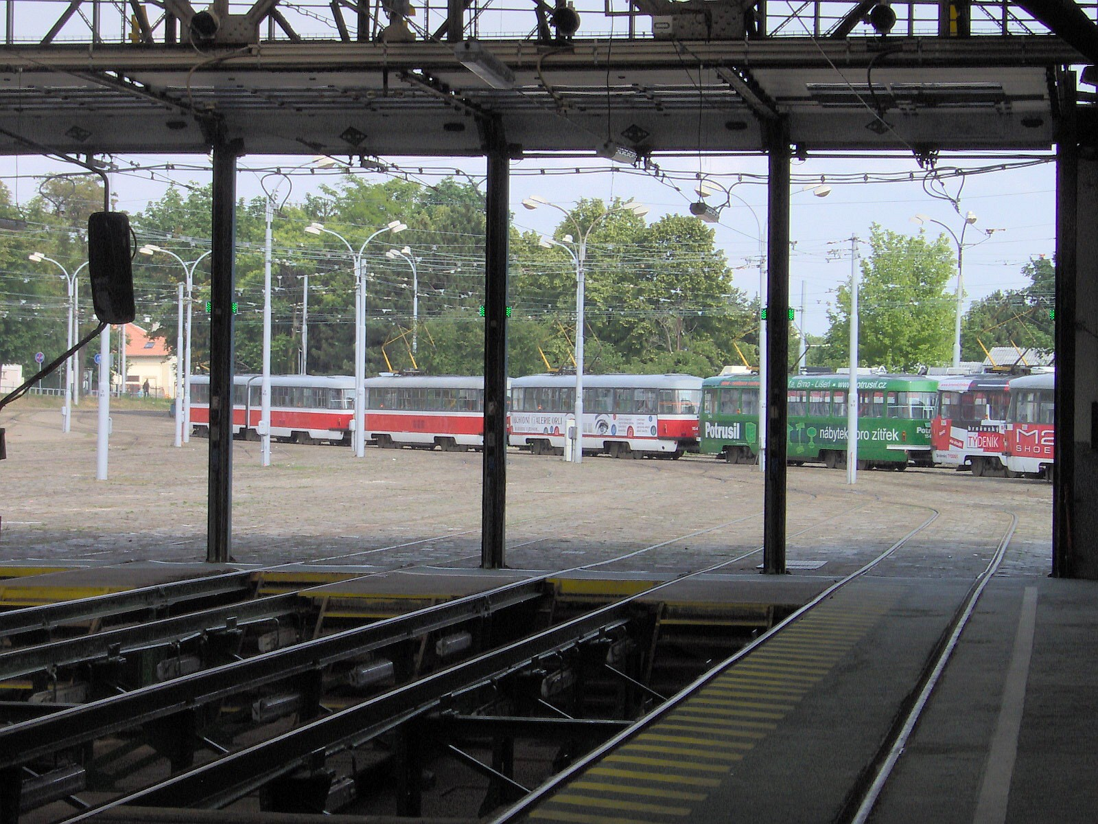 Pisárky tram depot, 140 years of public transport in Brno, Czech Republic